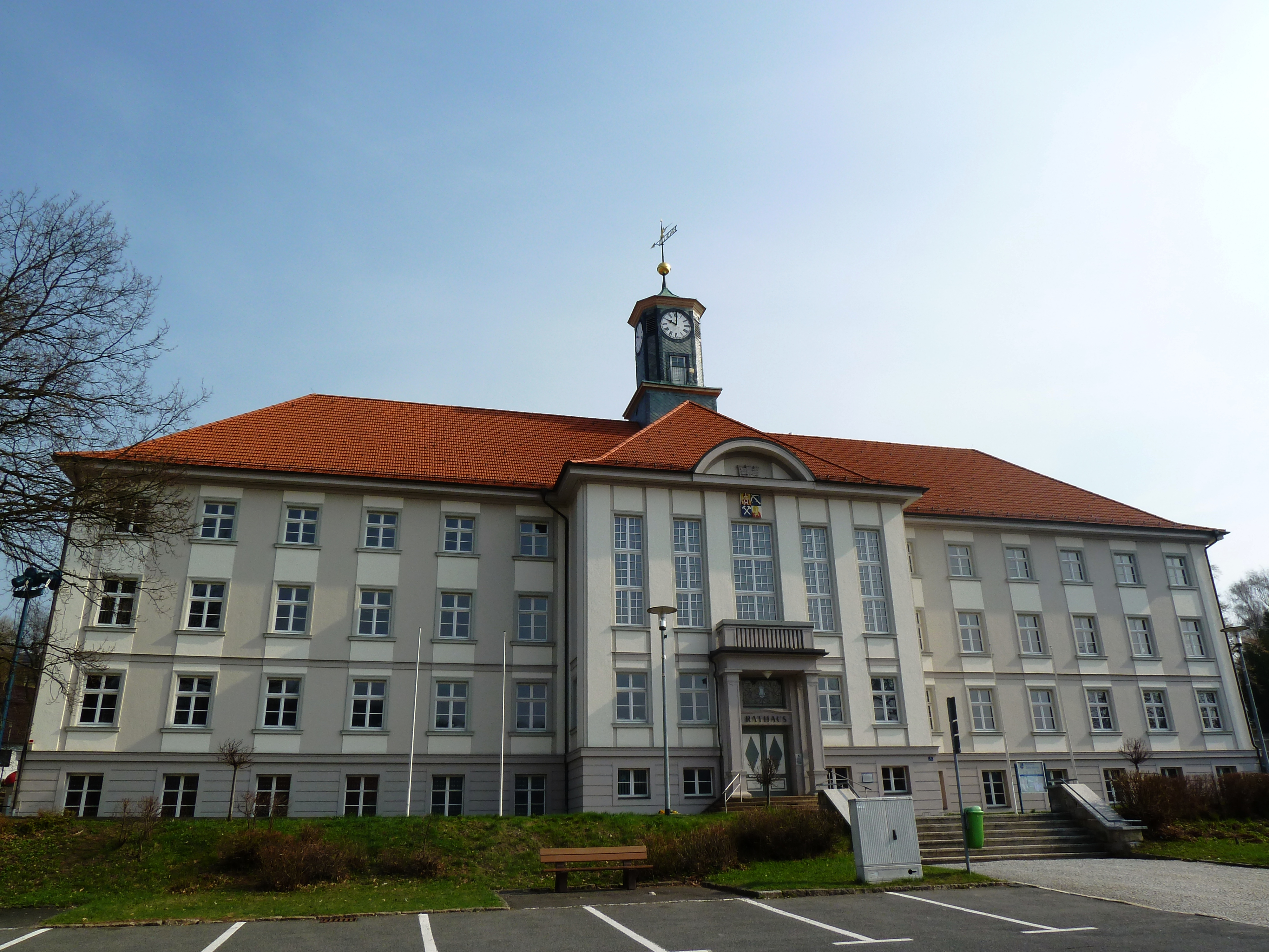 town hall Zella-Mehlis